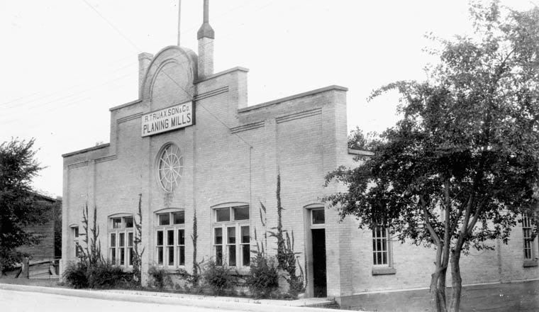 Photo of R. Truax and Son Company in Walkerton, Ontario